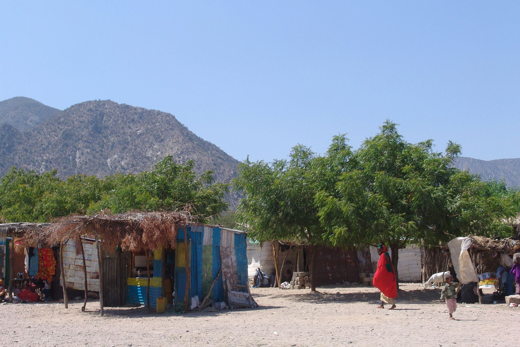 Village between Berbera and Sheikh (Sheekh, Shiikh). Image taken by Charles Fred on flickr. The creator has granted GFDL licensing and permission for use in the wikimedia project.